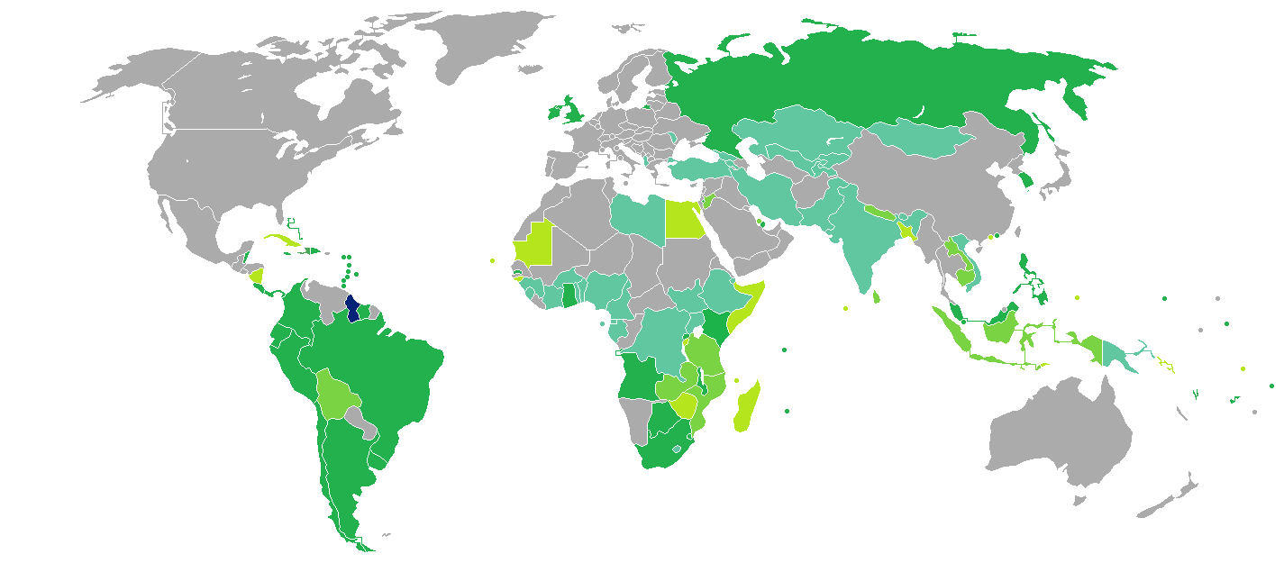 Visa requirements for Guyanese citizens Guyana Visa free access Visa on arrival eVisa Visa available both on arrival or online Visa required